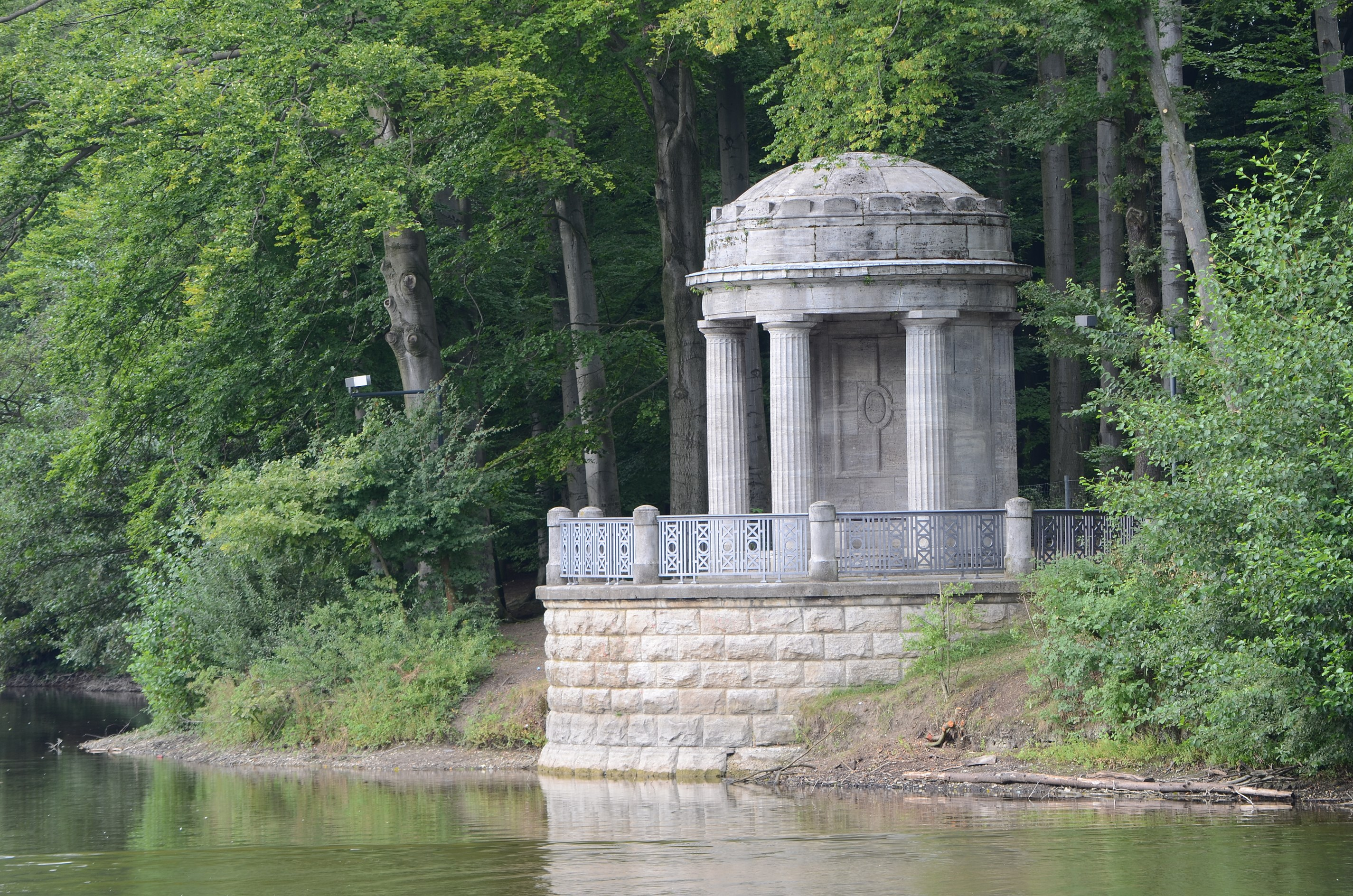 Krefeld (North Rhine-Westphalia, Germany) – urban forest – Deuß Temple This image shows a heritage building in Germany, located in the North Rhine-Westphalian city Krefeld (no. 201). This photograph was taken with a Nikon D7000